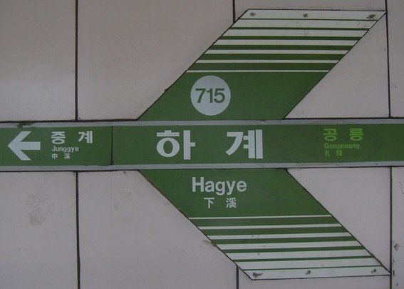 Hagye Station